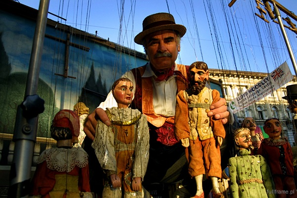 Anton Anderle Łódź